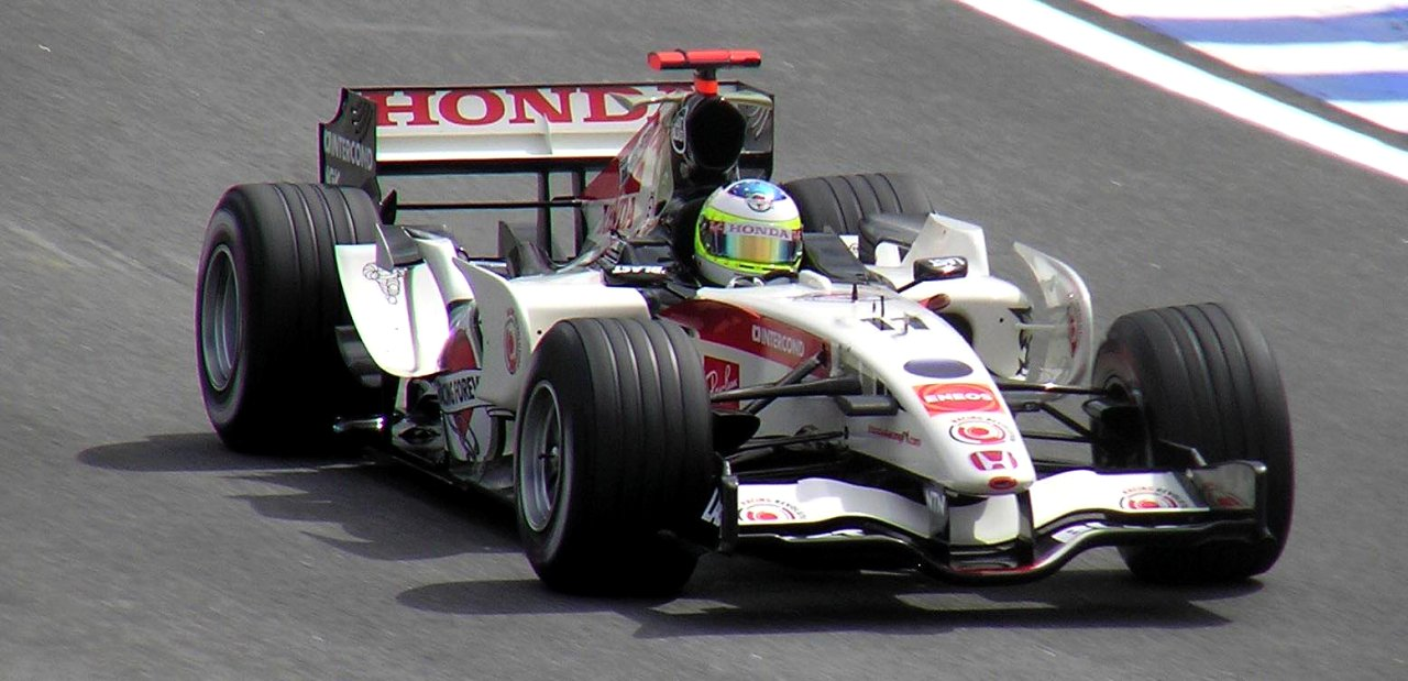 Formula One 2006 Rd.18 Interlagos: #11 Rubens Barrichello (Honda)